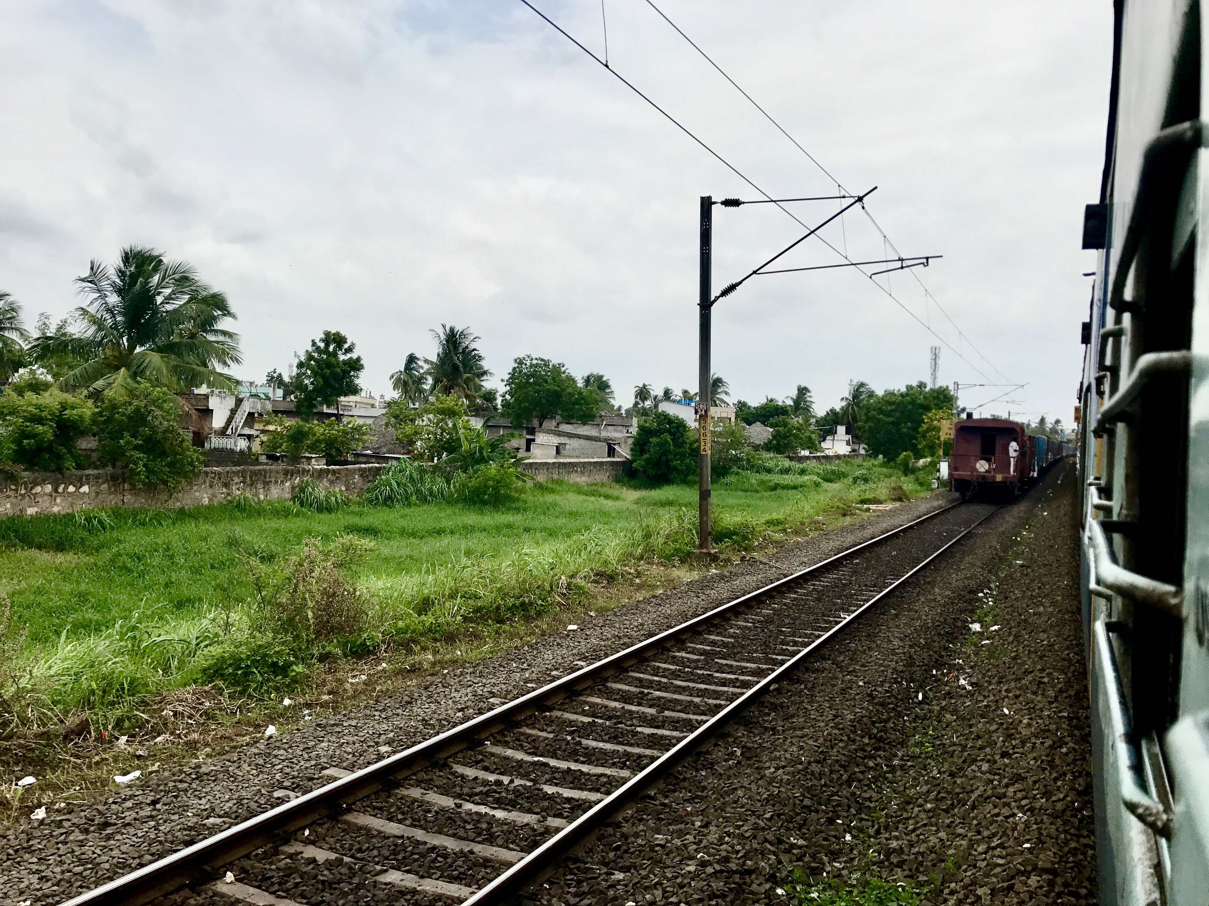 Pasivedala railway station